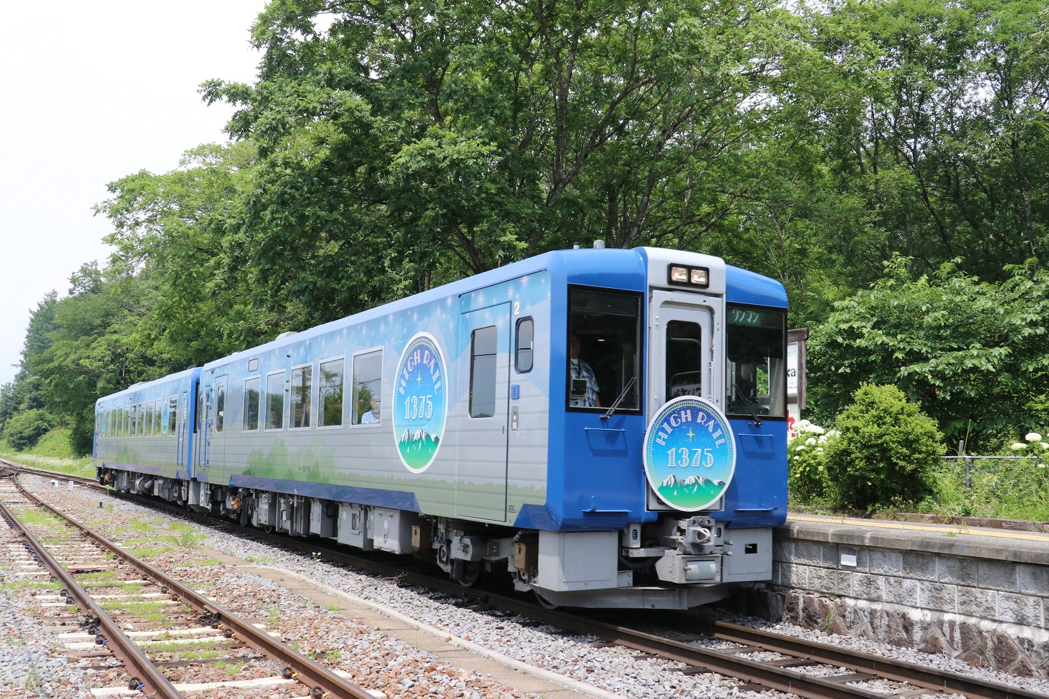 The JR East "High Rail 1375" two-car DMU set formed of cars KiHa 103-711 (nearest camera) and KiHa 112-711 at Kai-Koizumi Station on the Koumi Line in Yamanashi Prefecture, Japan